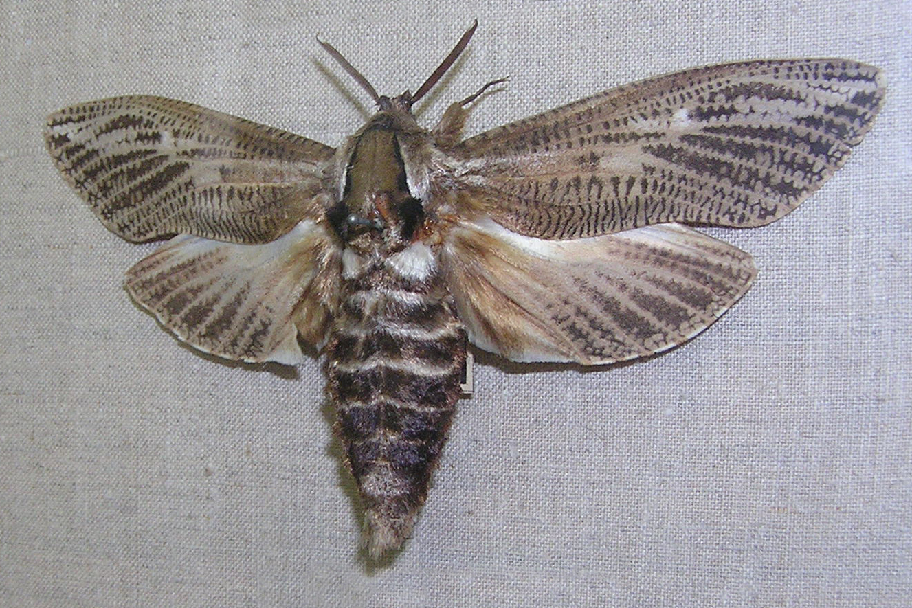 Xyleutes d'urvillei (Herrich-Schäffer, 1854). Saint Petersburg Museum of Zoology, Russia.